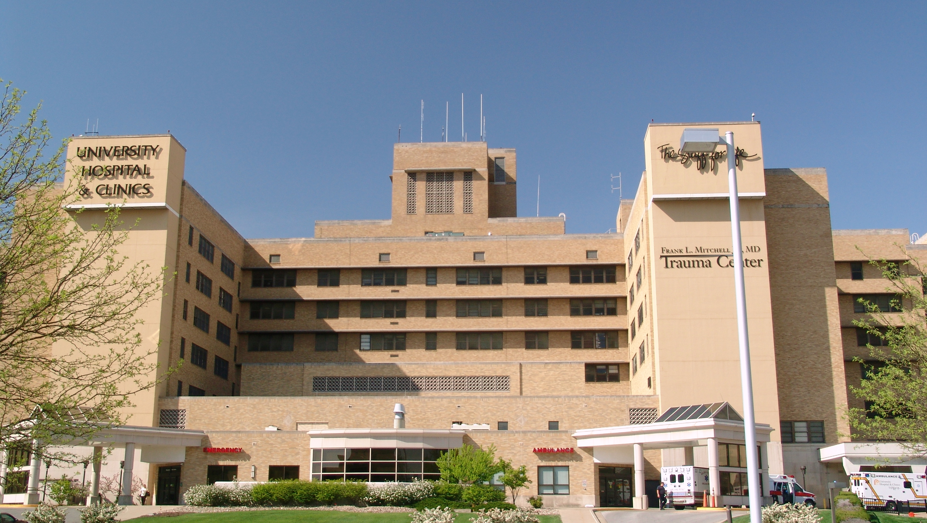 A photo of University Hospital and Clinics, taken from the Truman VA parking lot.